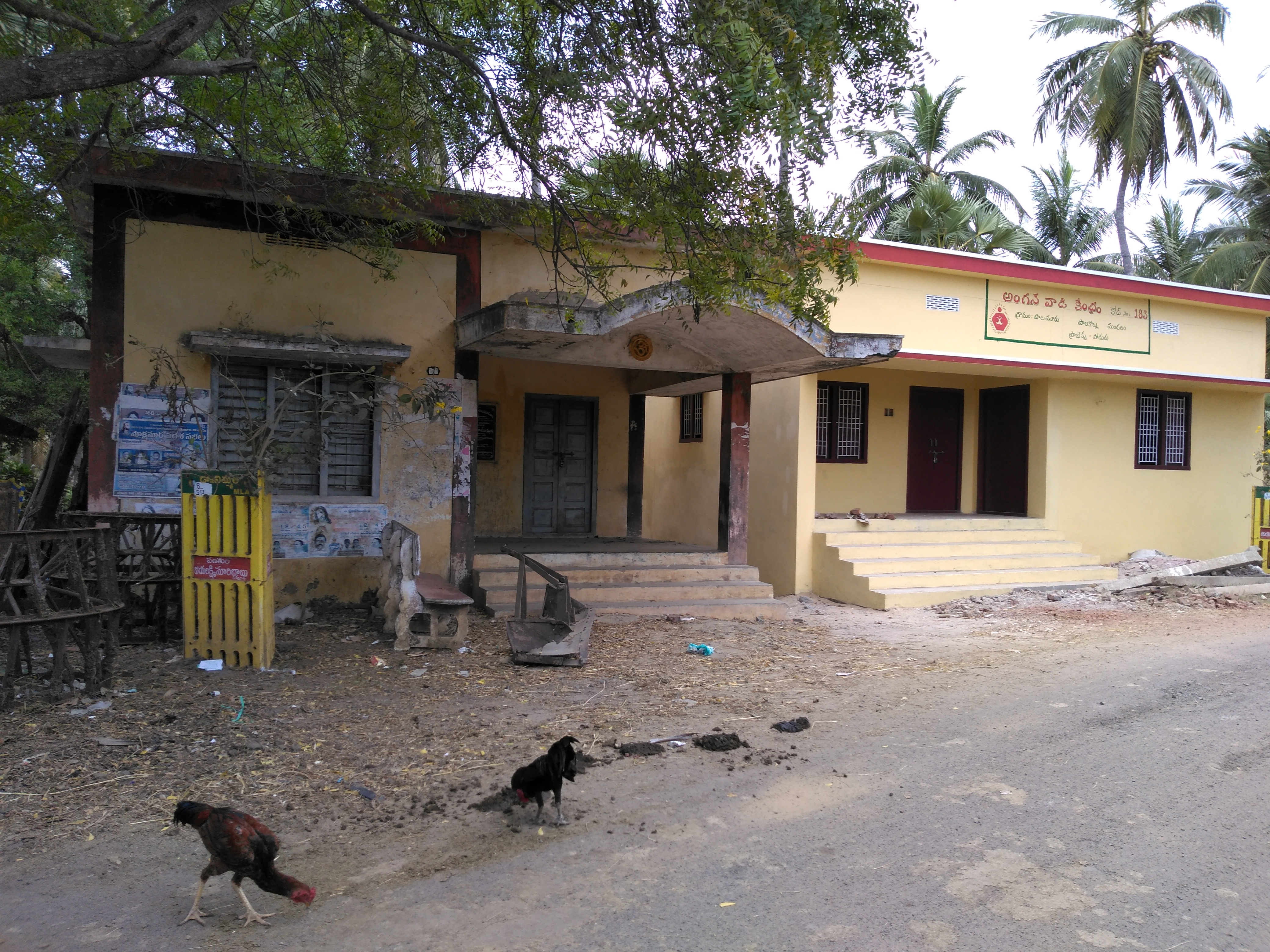 పాలమూరు గ్రామ చిత్రం, పాలకొల్లు మండలం